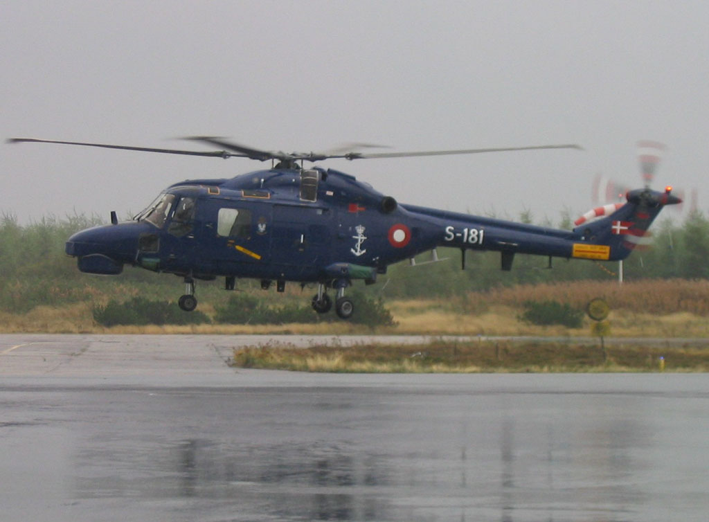 Royal Danish Navy Westland Lynx landing in the rain. Karup Air Force Base, 2004. /PAJ